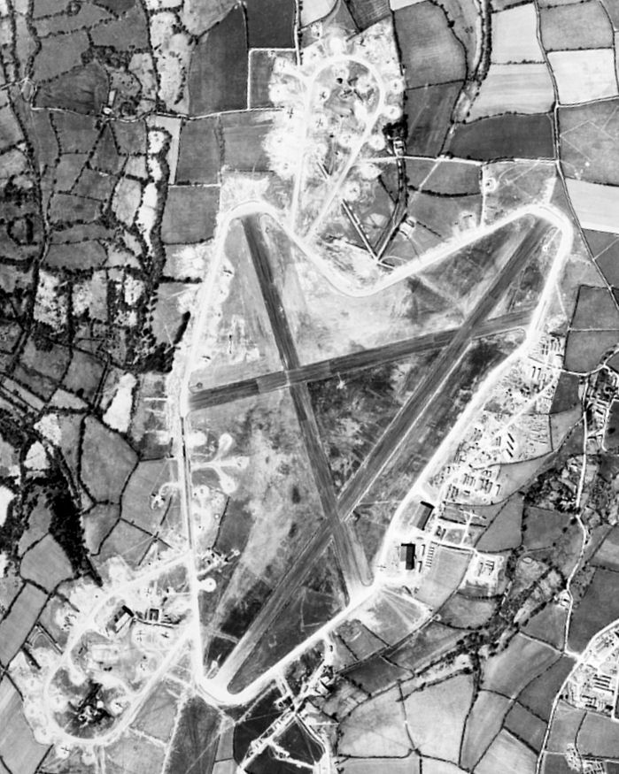 Aerial photograph of Dunkeswell airfield,, 22 April 1944. Photograph taken by 7th Photographic Reconnaissance Group, sortie number US/7PH/GP/LOC314. English Heritage (USAAF Photography). Locations